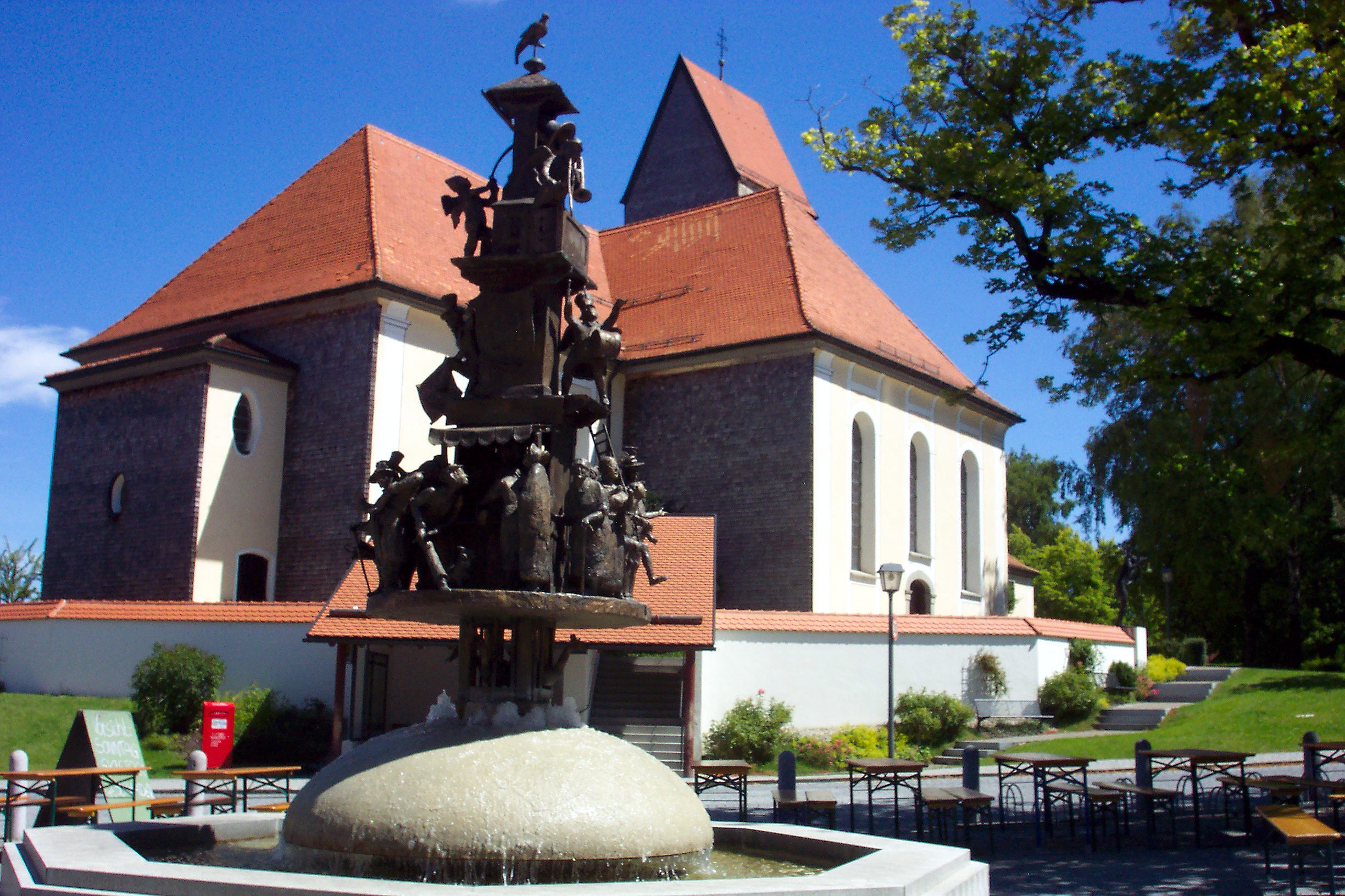 well in Wiggensbach at the marketplace with the church St. Pankratius in the back